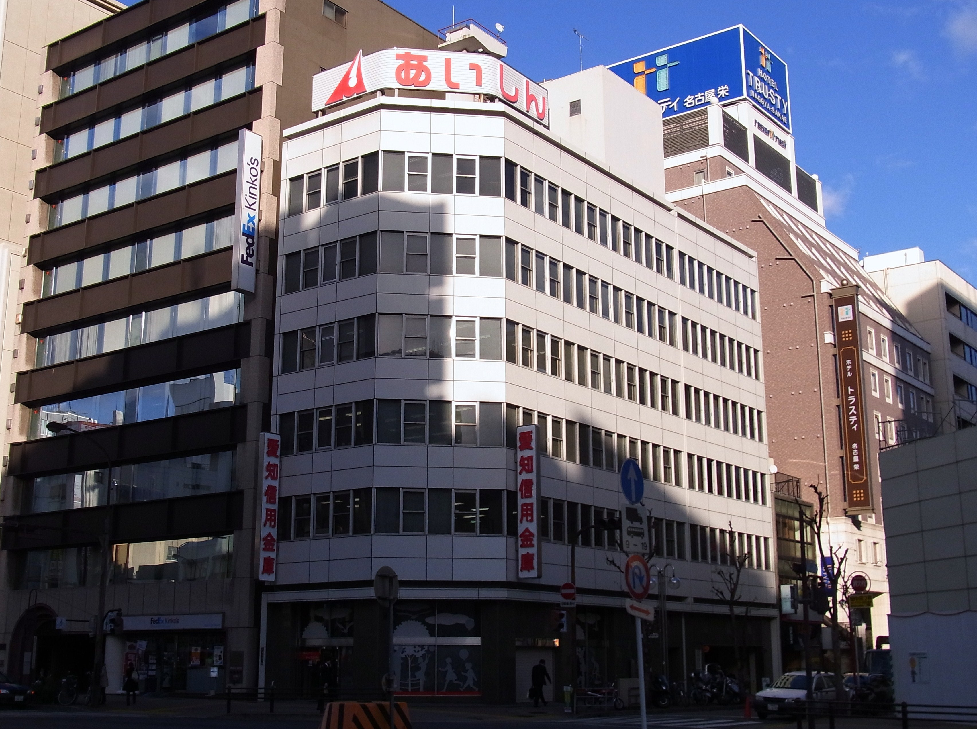 Aichi Shinkin Bank headquarters in Naka-ku ward, Nagoya.